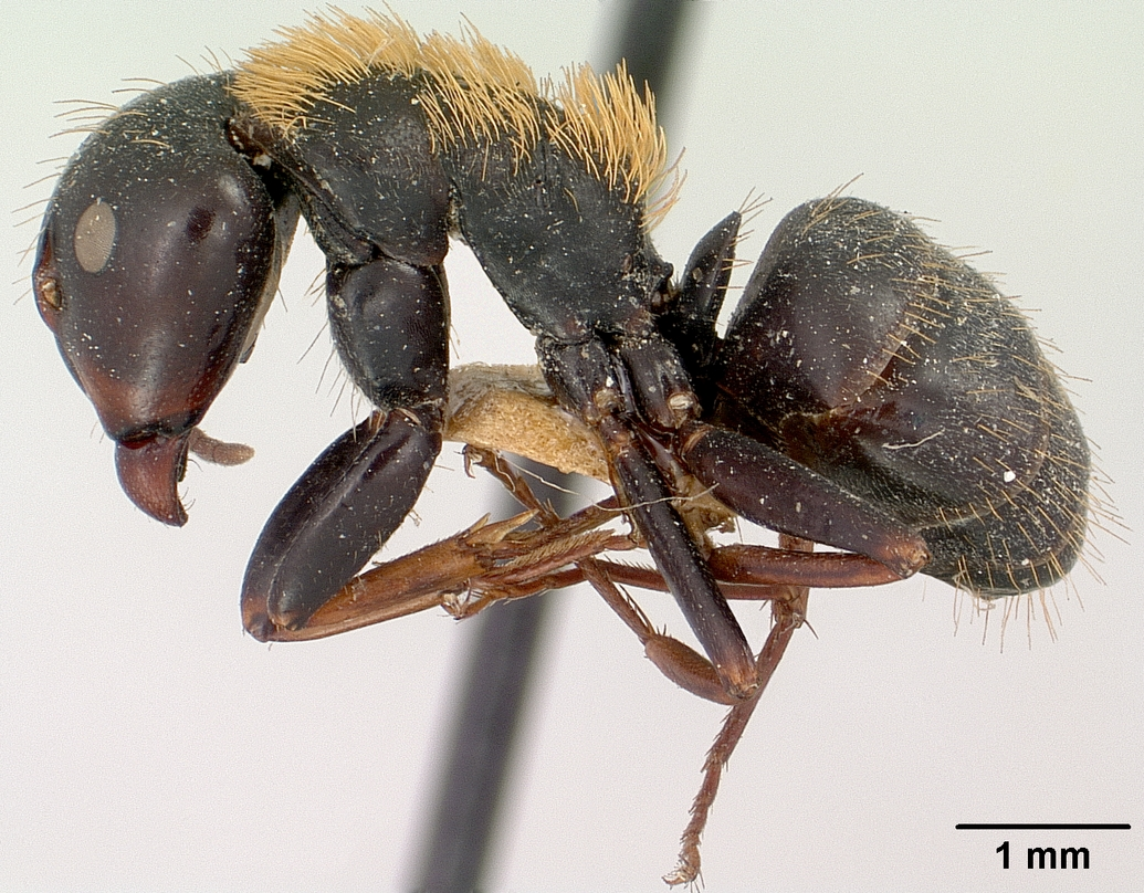 Profile view of ant Camponotus ursus specimen casent0101374.